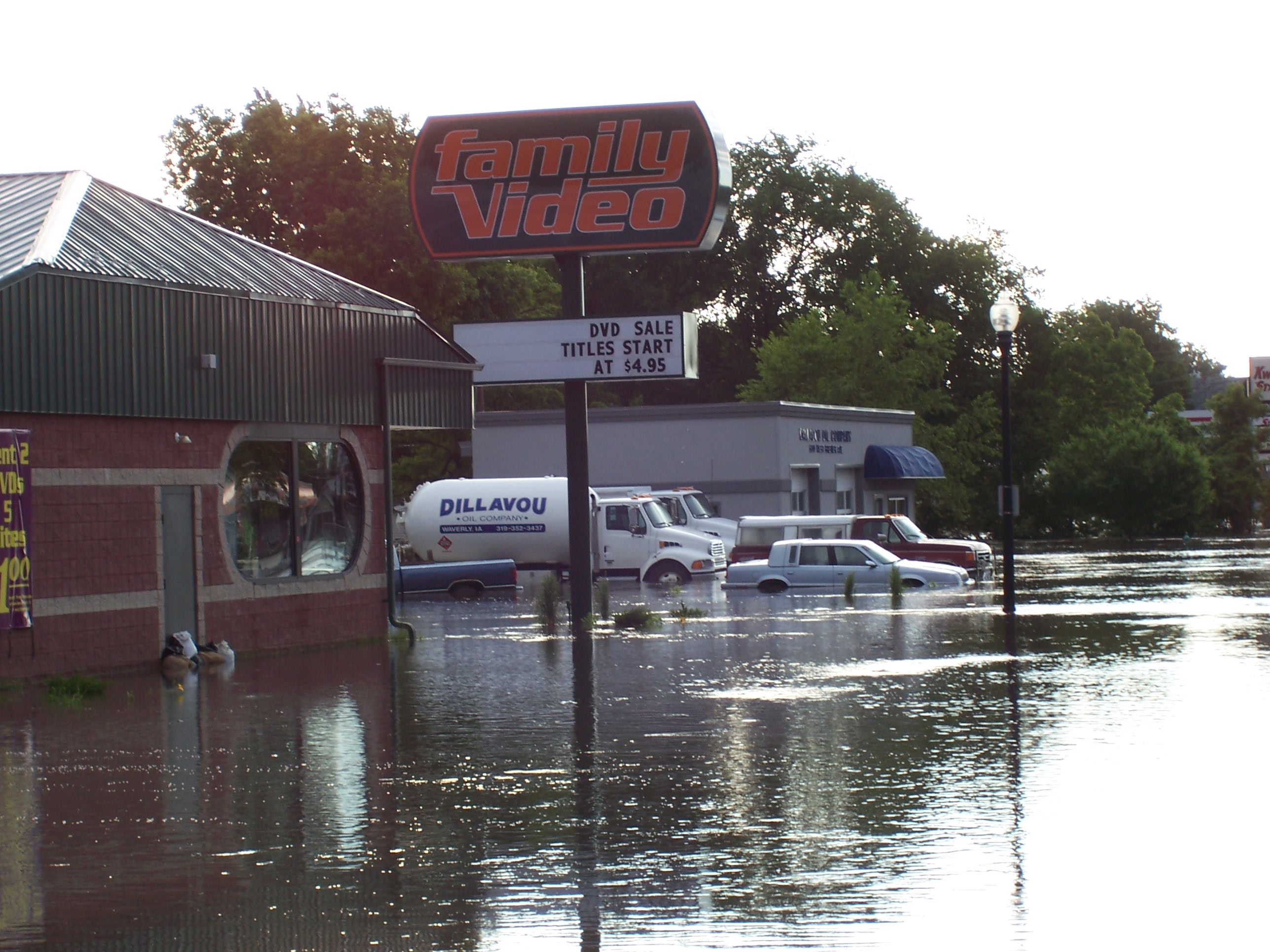 Looking west on Bremer Avenue in Waverly, Iowa, following the crest of the Cedar River after the flood of 2008.